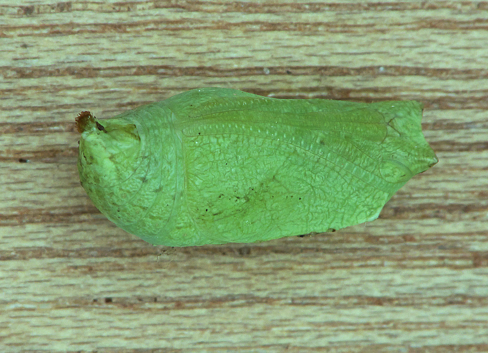 Pararge aegeria pupa